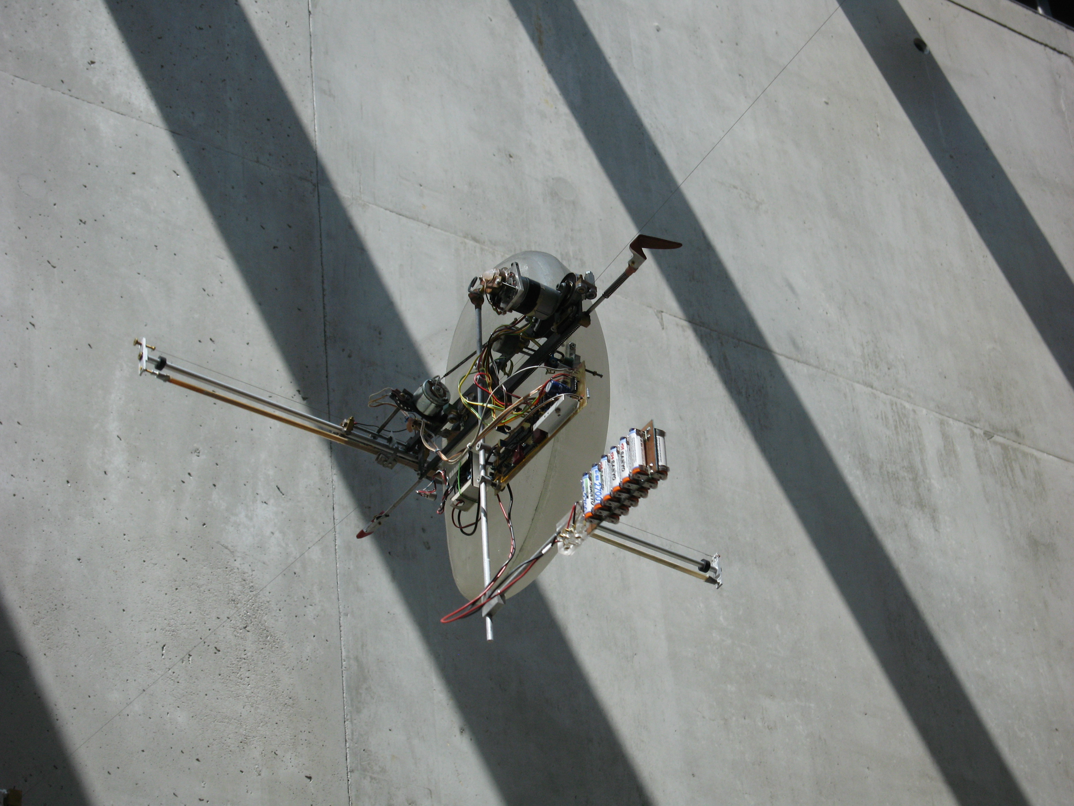 Monochorde by Jakob Scheid, Salzburg, Museum der Moderne